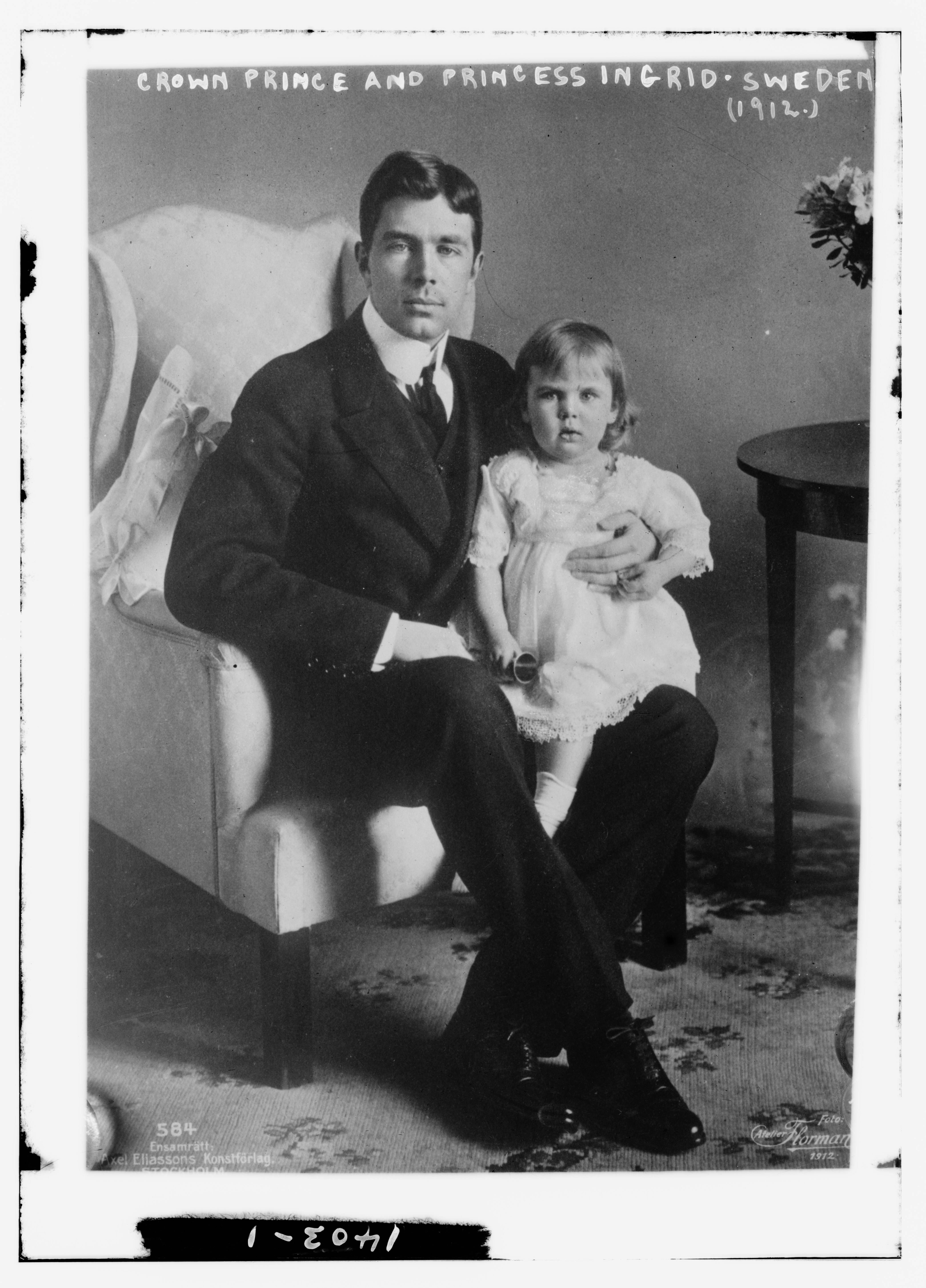 Title: Crown Prince and Princess Ingrid of Sweden Abstract/medium: 1 negative : glass ; 5 x 7 in. or smaller.